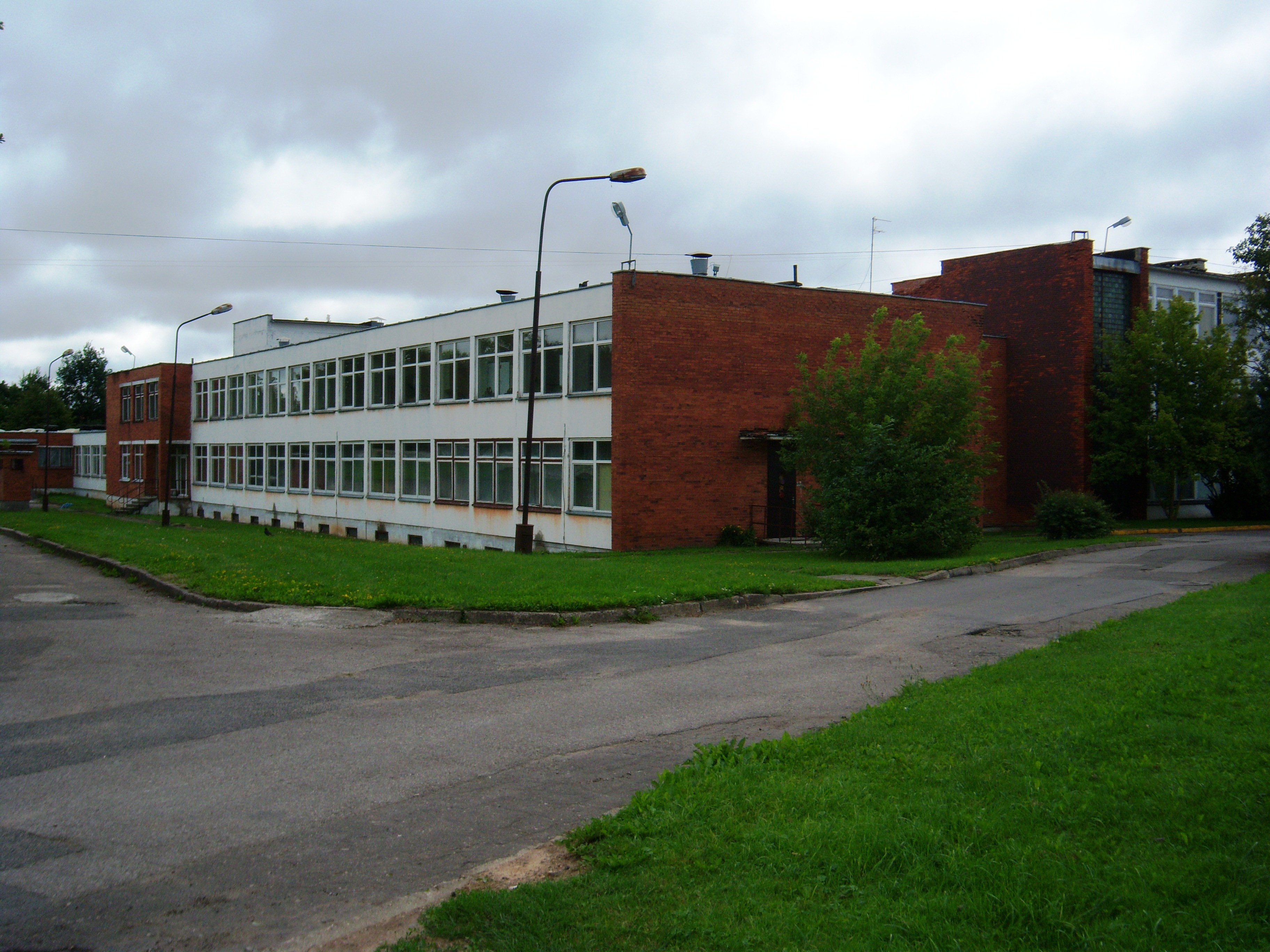 Kaunas special school, Lithuania